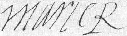 Mary Queen of Scots' signature. Marie R means Maria Regina (Queen Mary in Latin)